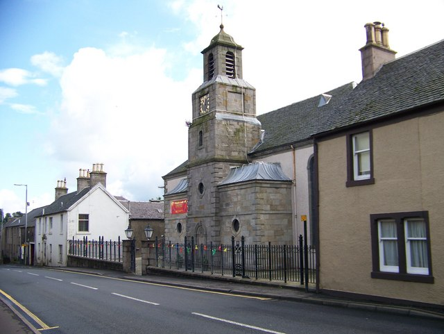 Avendale Old Church, Kirk Street, Strathaven